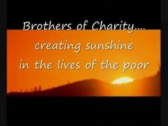 sunshine